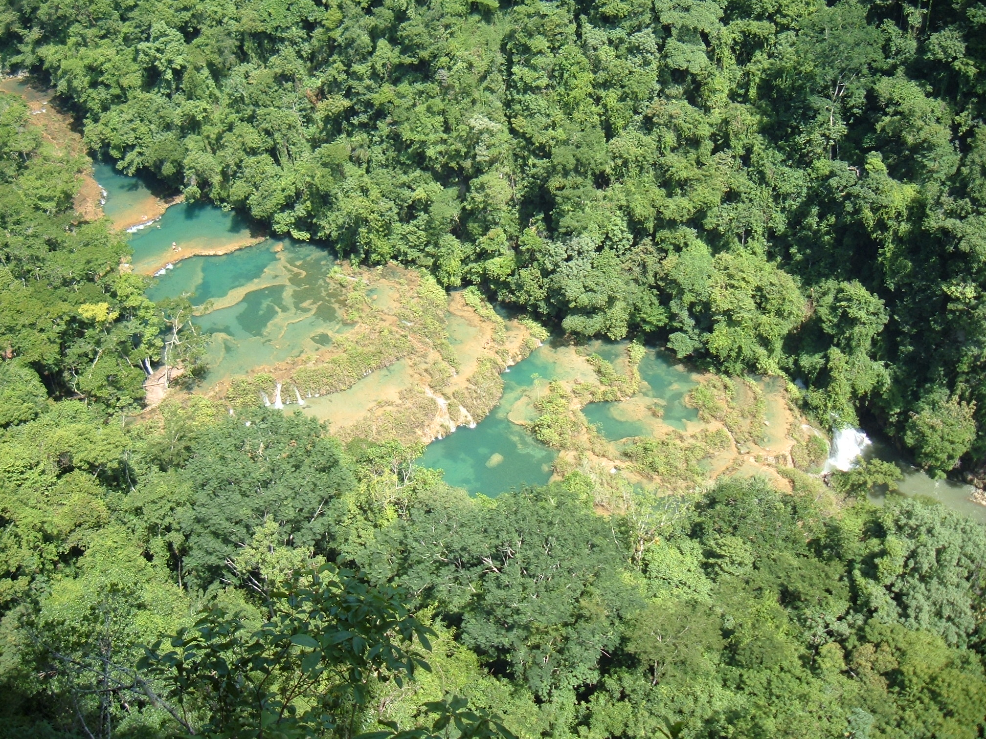 Semuc Champey in Guatemala